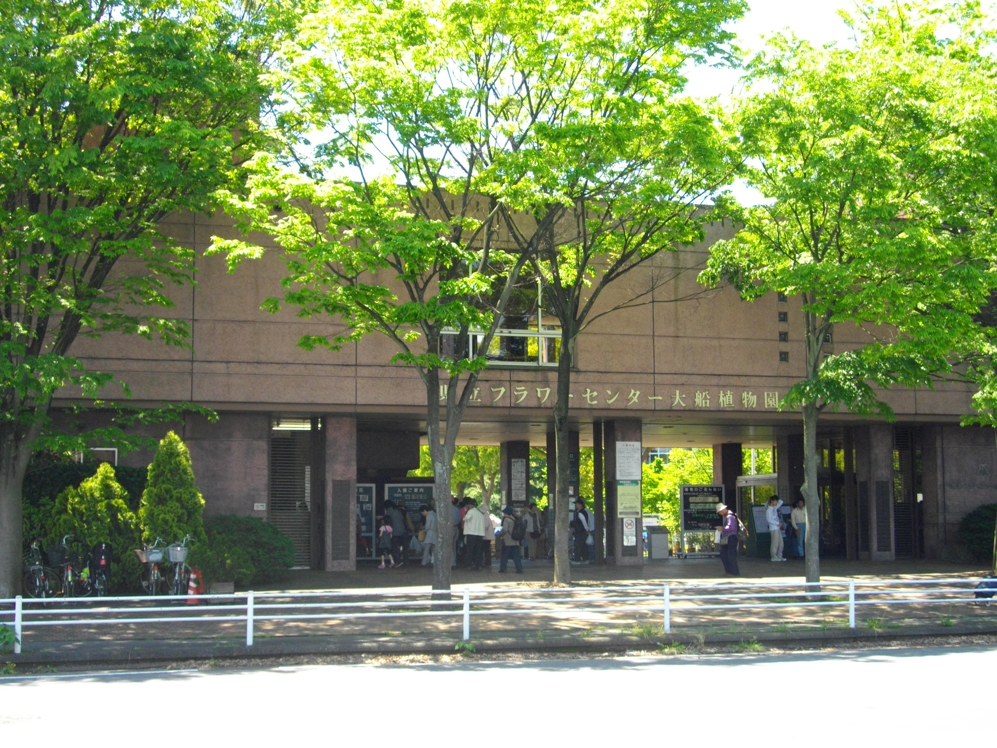 Kanagawa Prefectural Flower Center Ofuna Botanical Garden